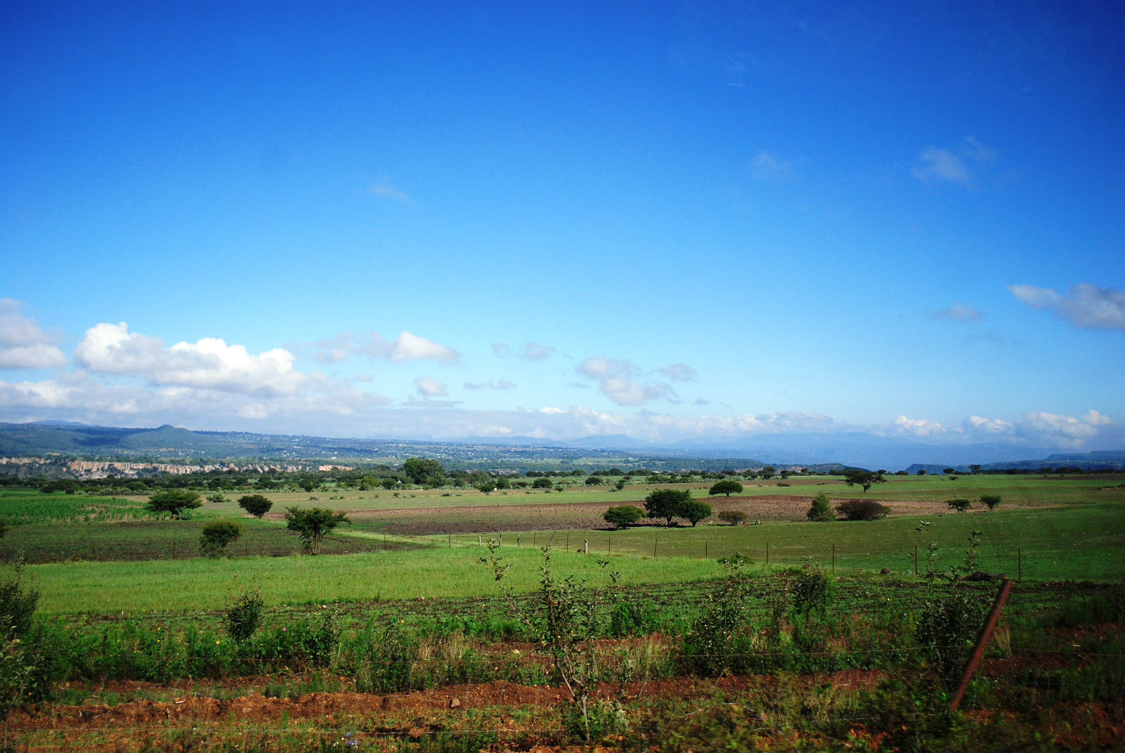 View of the Tulancingo Valley in Huasca de Ocampo, Hidalgo, Mexico